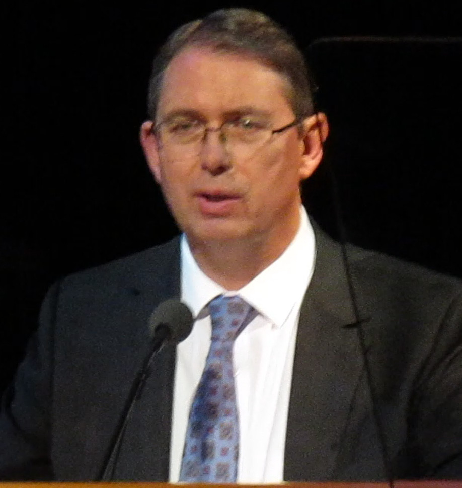 The psychologist Ben Ogles giving a devotional address at BYU.